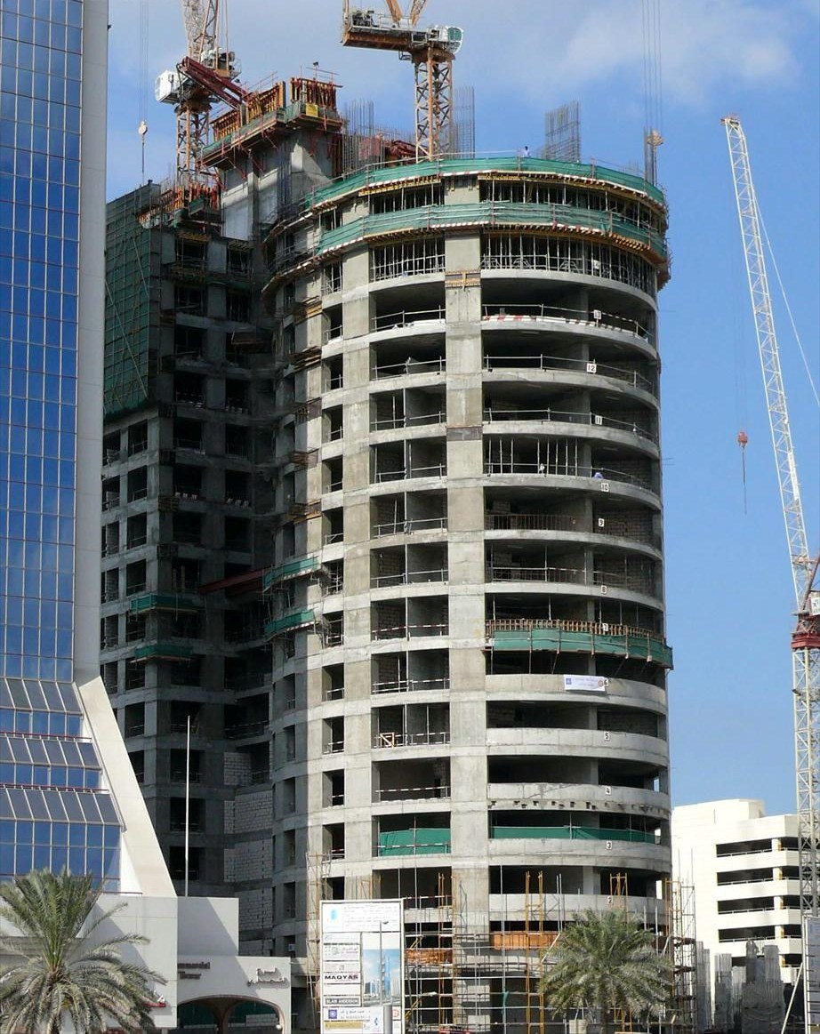 This is a photo showing the construction of H.H.H. Tower, located along Sheikh Zayed Road in Dubai, United Arab Emirates, on 28 December 2007.